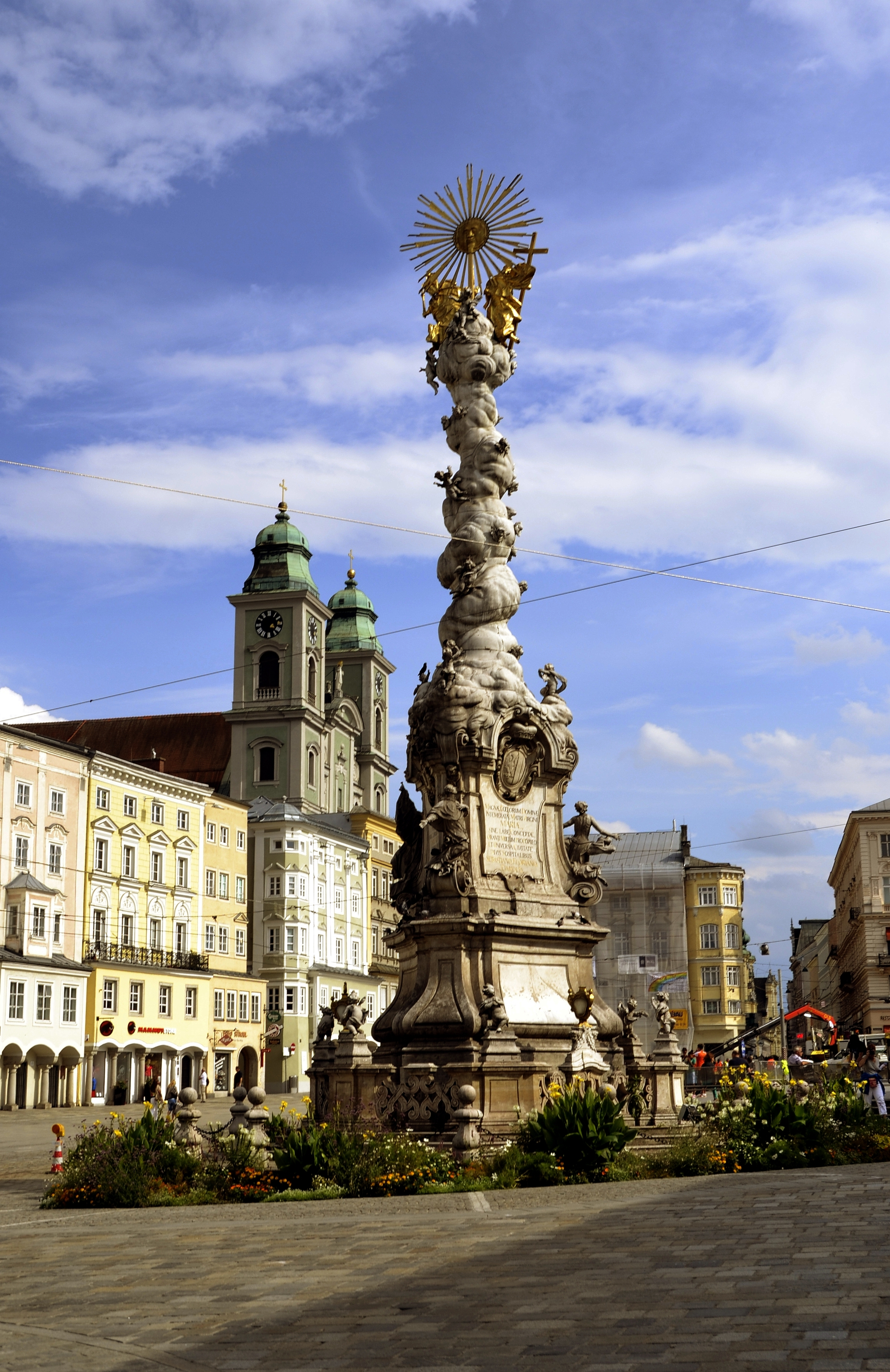 The Marian and Holy Trinity column of Linz in Upper Austria.